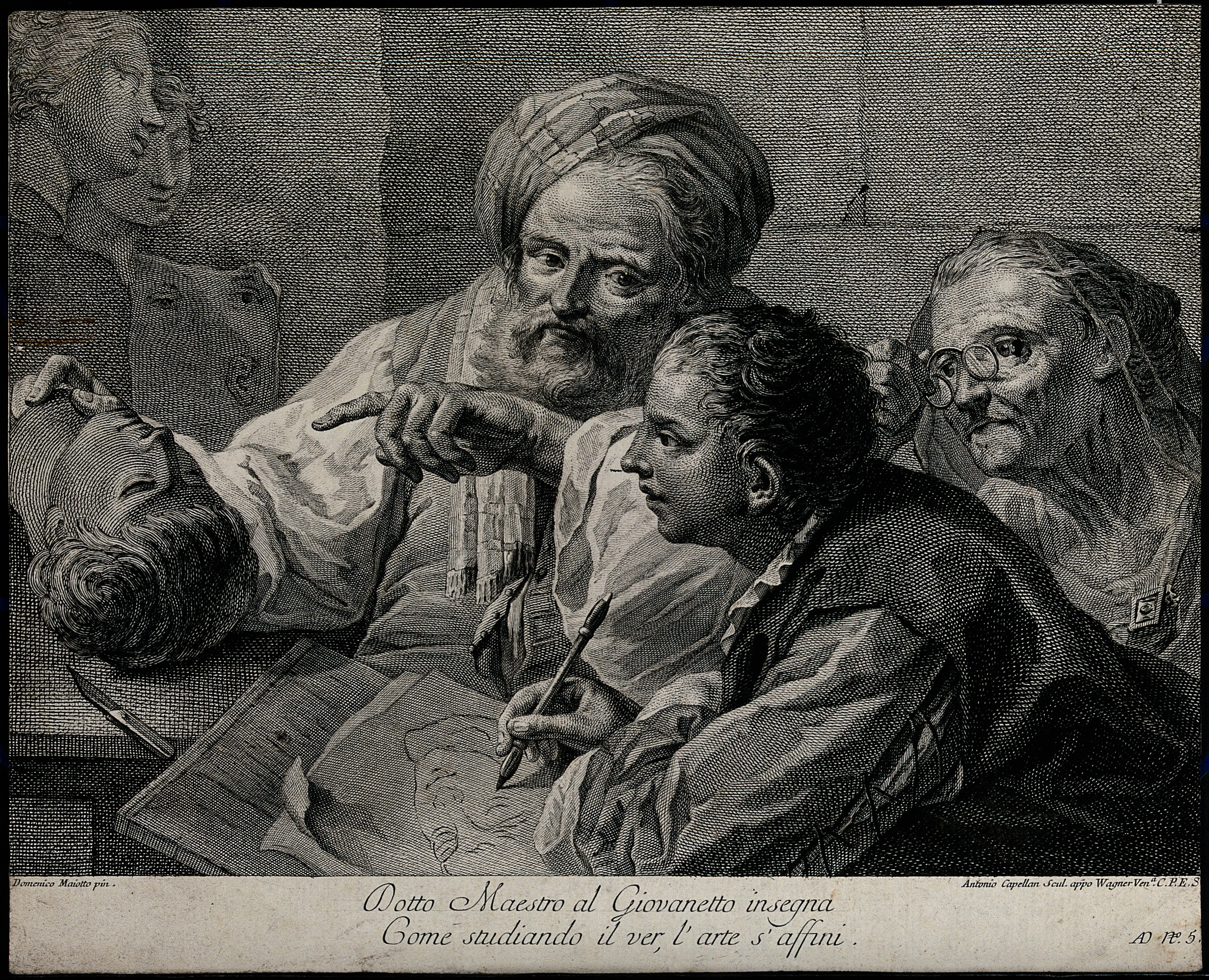 A young man being instructed in drawing by an older man. Engraving by A. Capellani after D. Maggiotto. Iconographic Collections Keywords: Antonio Capellani; Domenico Maggiotto